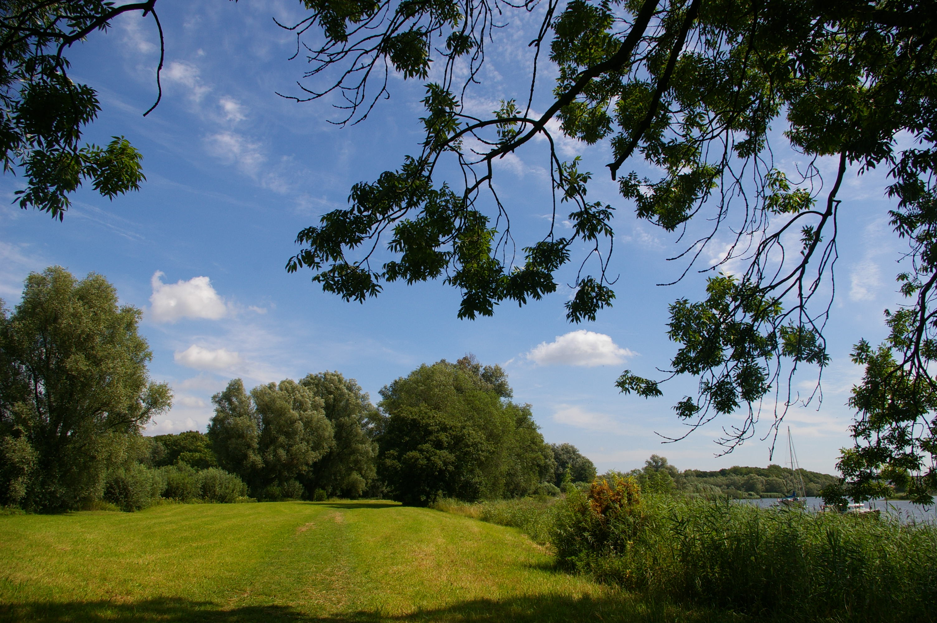 De Avelingen natural landscape, west of Gorinchem, the Netherlands.